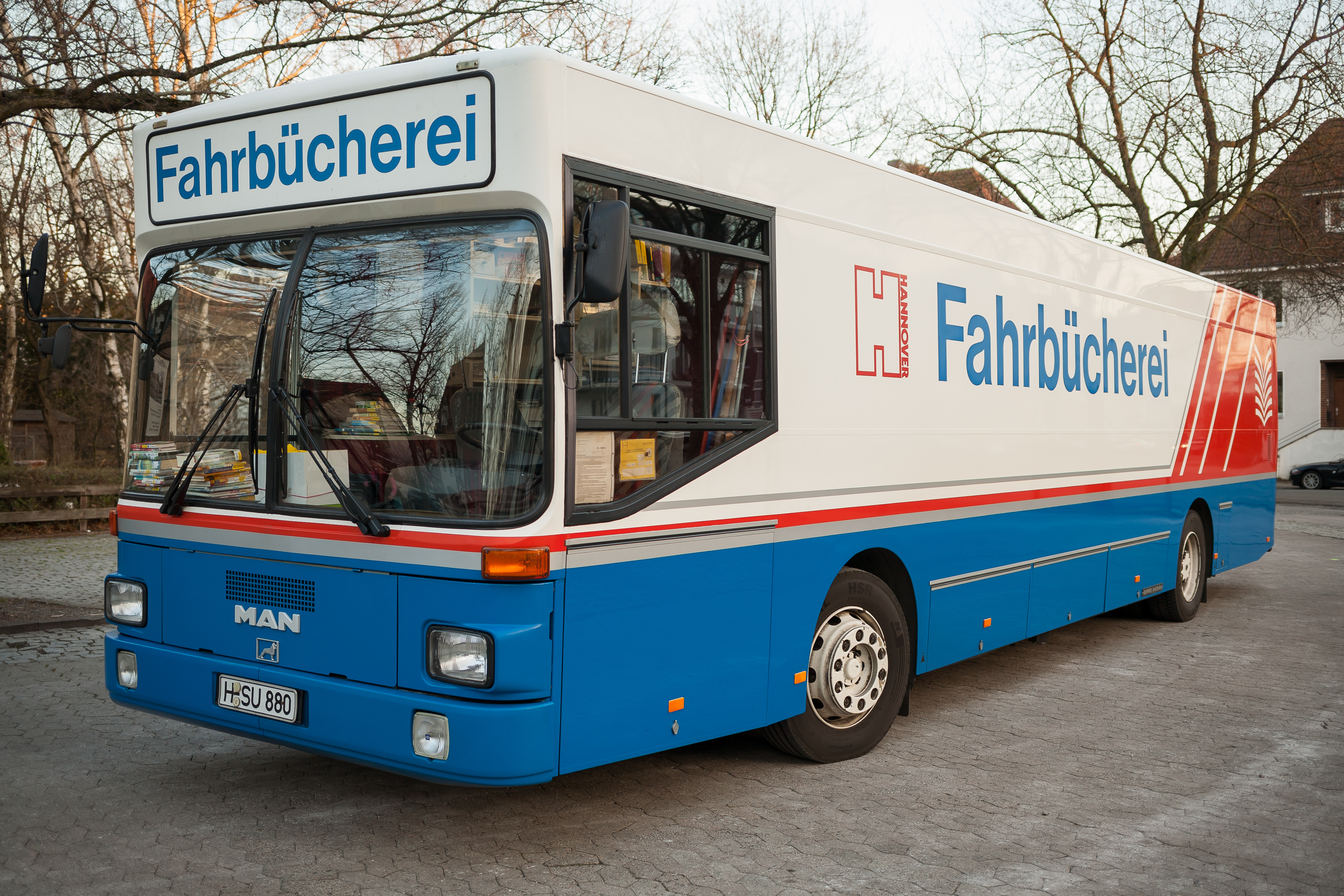 Mobile library of the public libraries in Hanover, Germany.